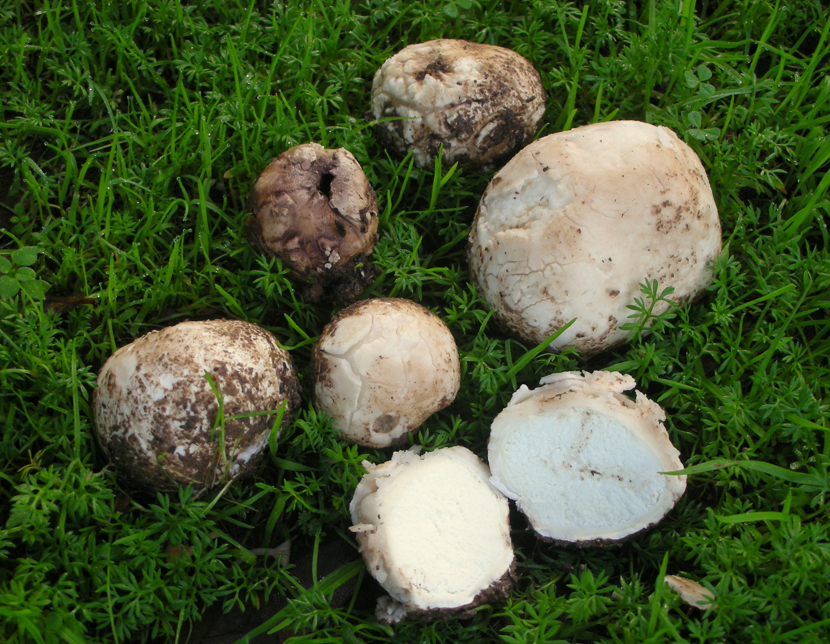 Bovista plumbea Pers. Location: China Camp State Park, Marin Co., California, USA For more information about this, see the observation page at Mushroom Observer.